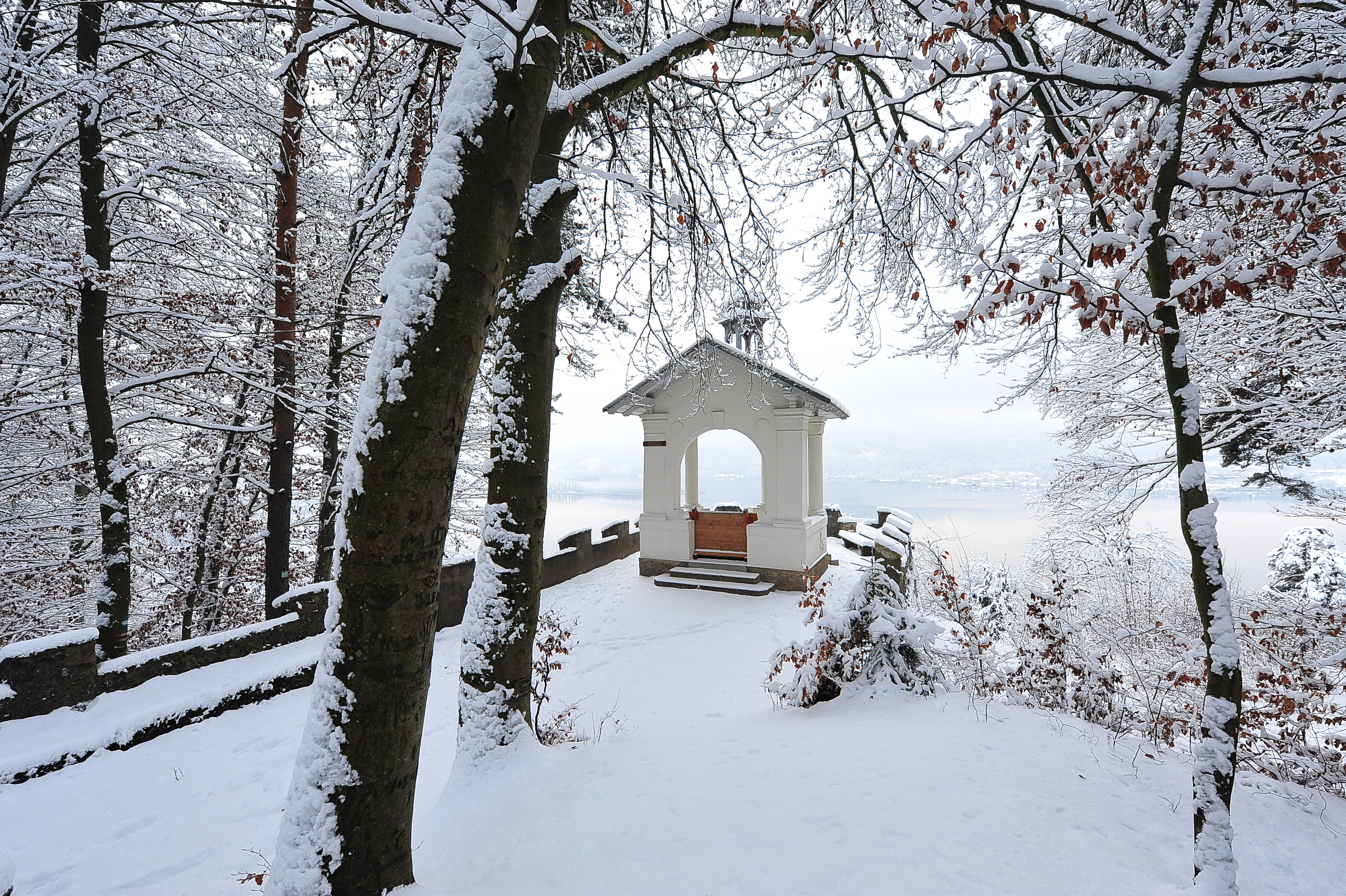 Gazebo on the "High Gloriette", municipality Pörtschach am Wörthersee, district Klagenfurt Land, Carinthia, Austria, EU